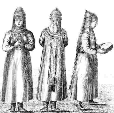 Bashkir women dressed in dulbega breast cover and kashmau headdress.